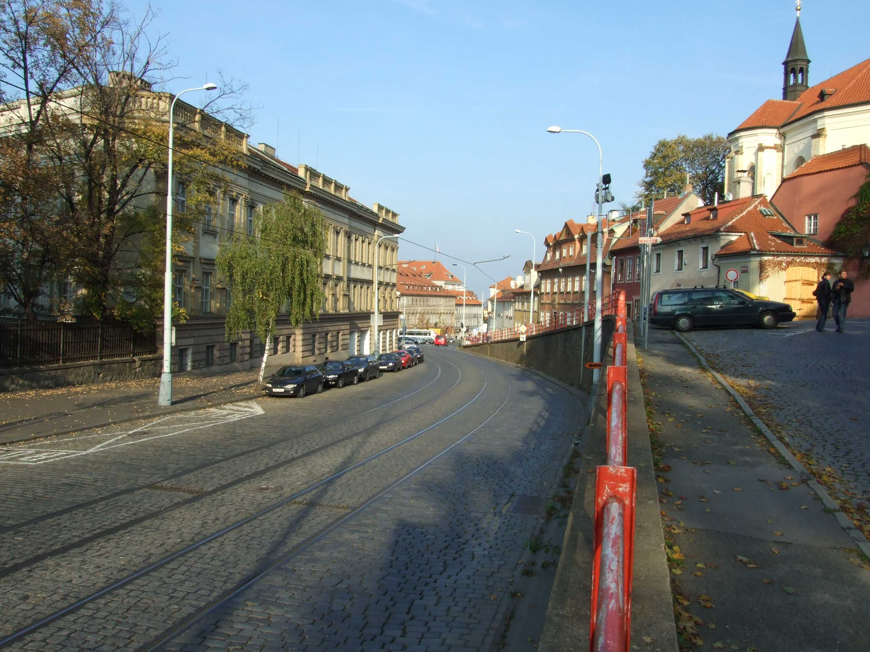 Pohořelec, street in Prague